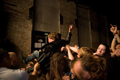 Crowdsurfing at Hole In The Sky, Bergen Metal Fest 2007